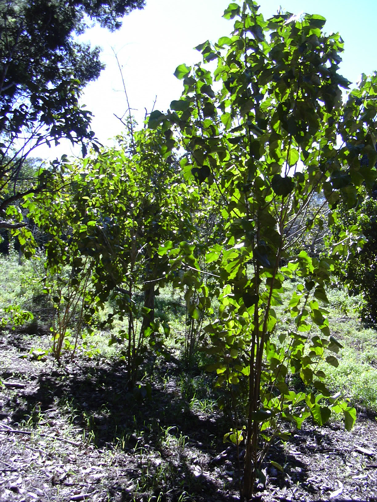 Croton guatemalensis (habit). Location: Maui, Piiholo